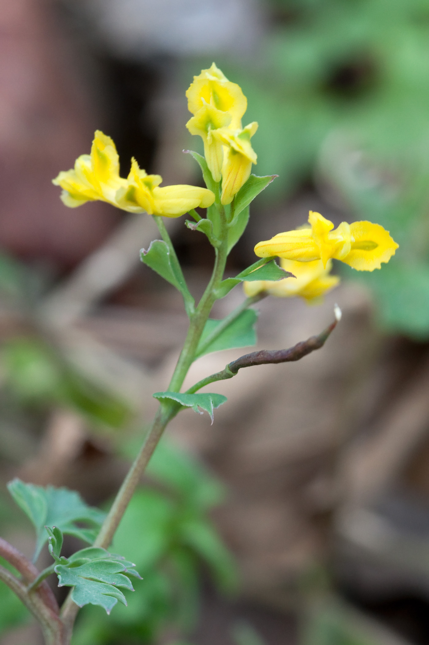 Yellow Harlequin (Corydalis flavula) at Radnor Lake in Nashville, Tennessee